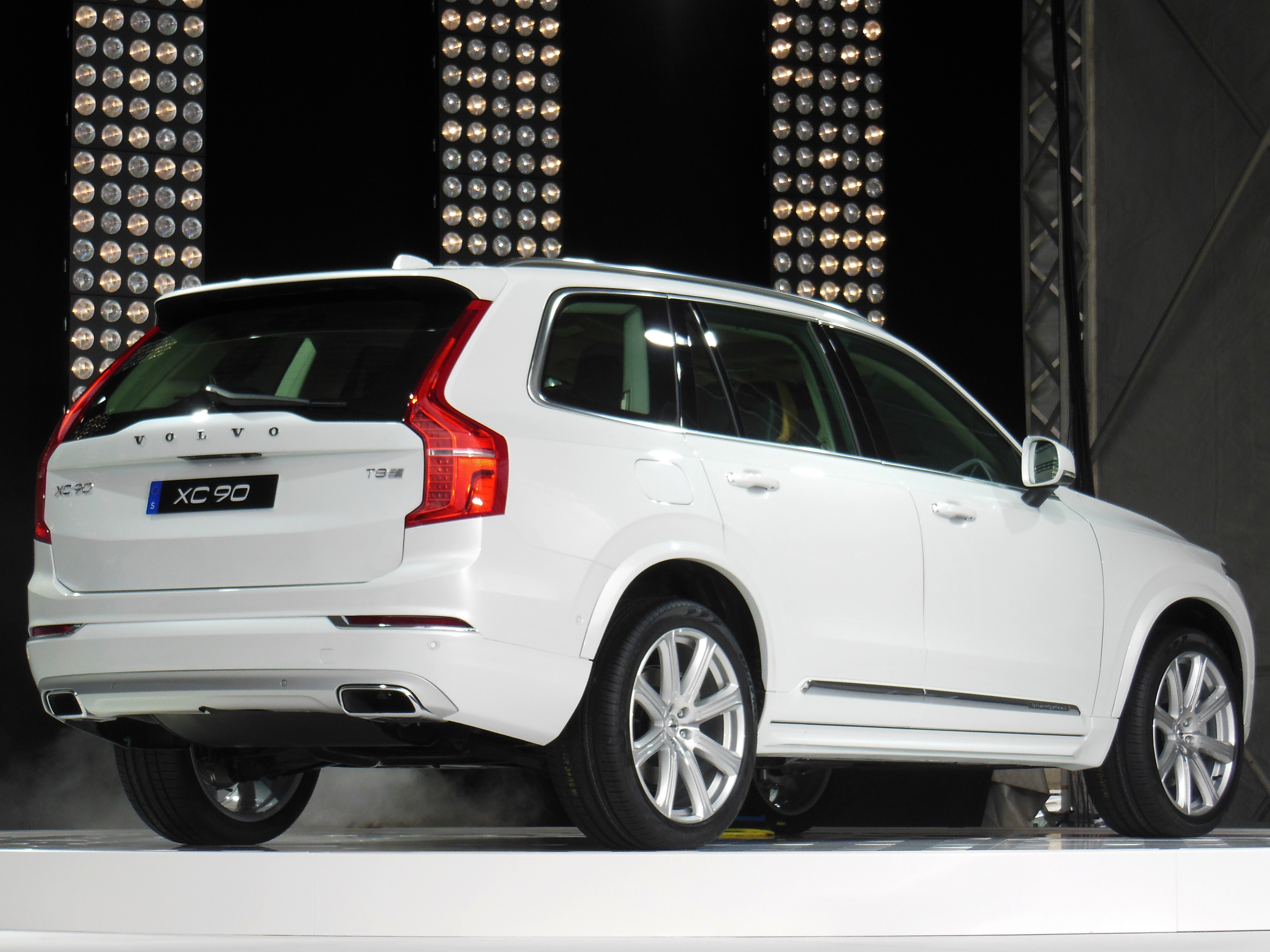 The second version of Volvo XC90 is presented at Gustaf Adolfs torg in Gothemburg, 31 August 2014.